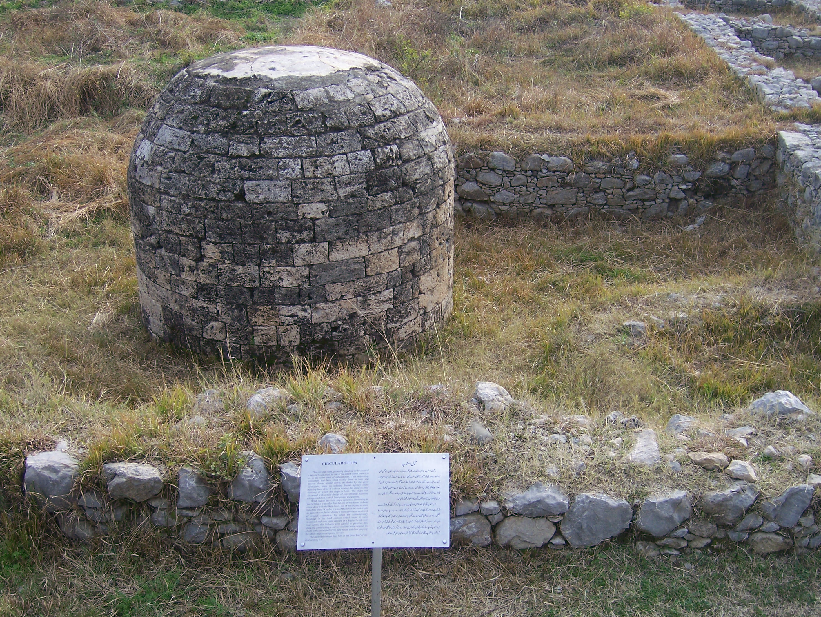 A round stone stupa — at Sirkap, theIndo-Greek archaeological site. Located near ancient Taxila — in Punjab Province, Pakistan.